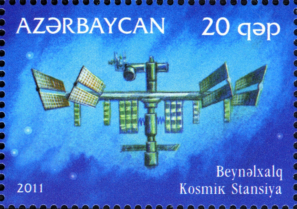 50th Anniversary of the First Manned Space Flight.